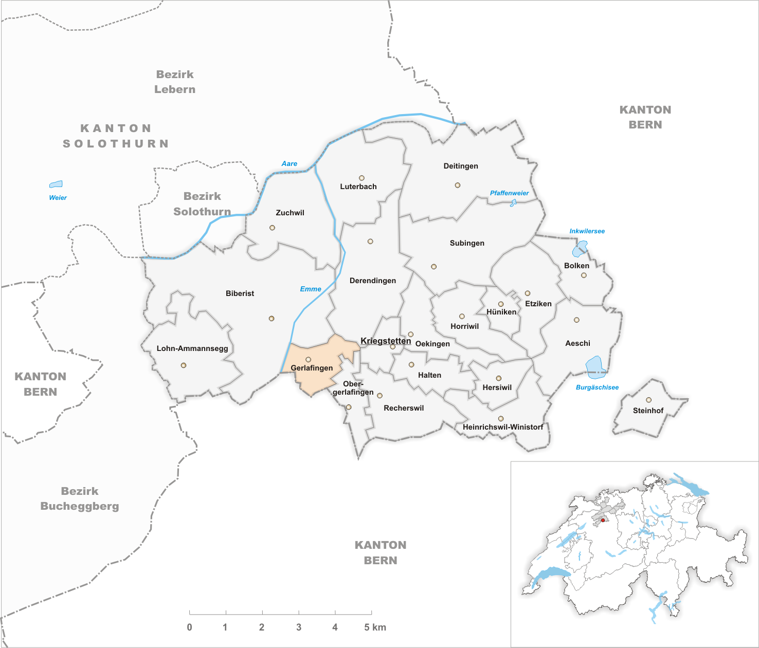 Municipality Gerlafingen